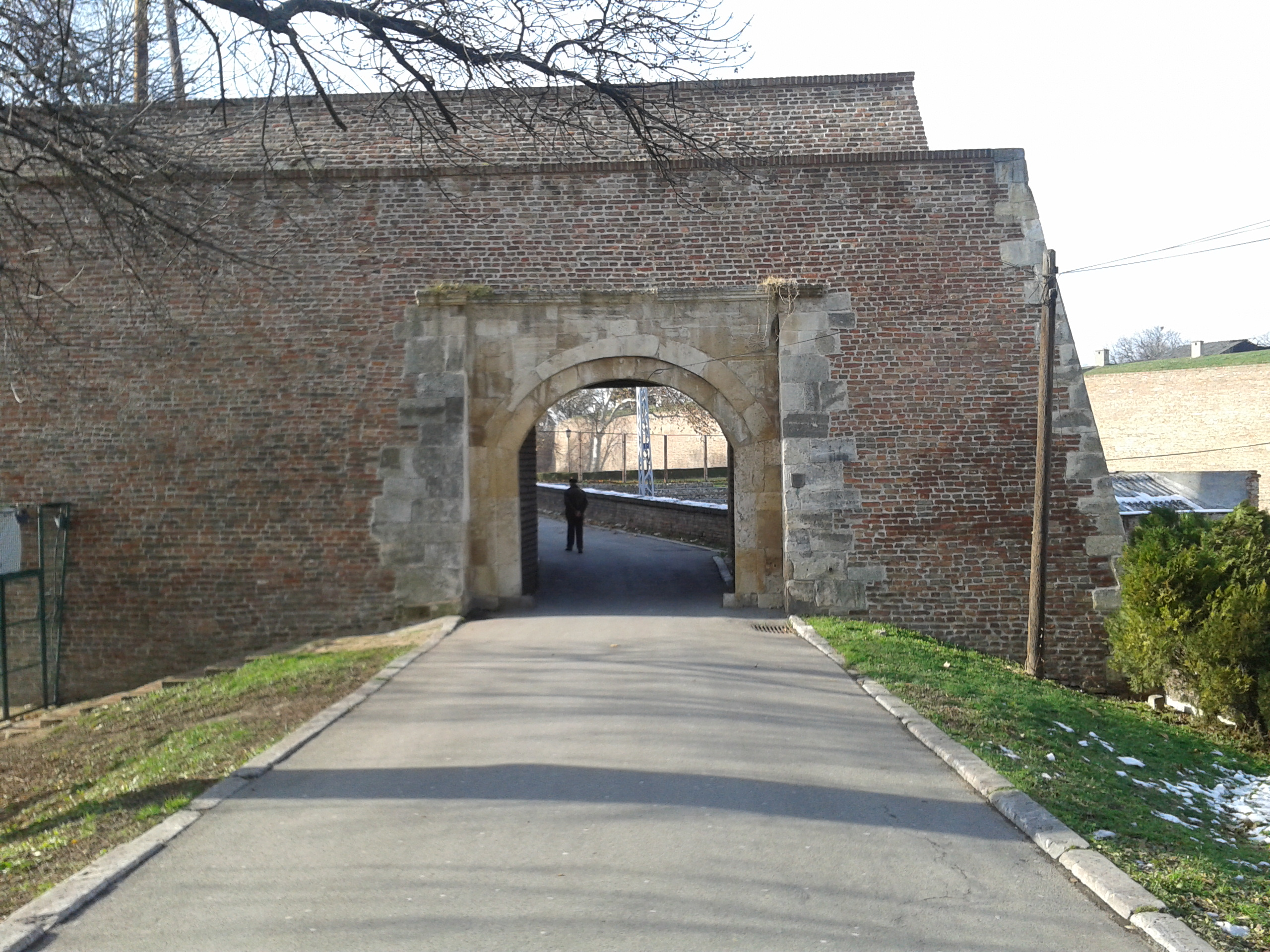 Outer Stambol Gate